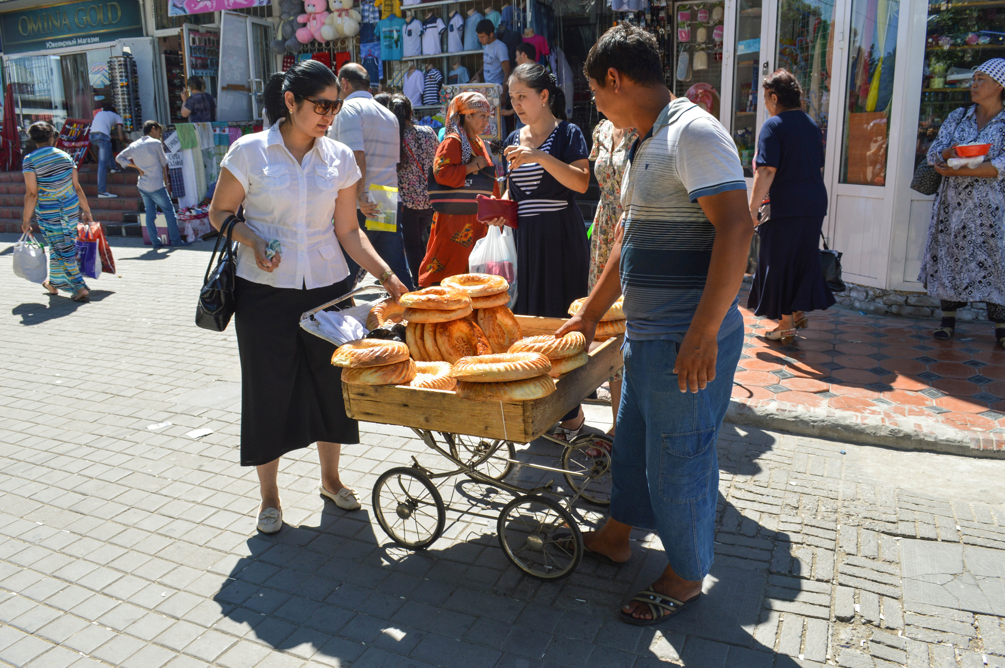 500px provided description: Bread Vendor [#city ,#two ,#people ,#street ,#road ,#woman ,#adult ,#man ,#market ,#child ,#pavement ,#shop ,#basket ,#group ,#shopping ,#stock ,#cart ,#sell ,#wear ,#commerce]